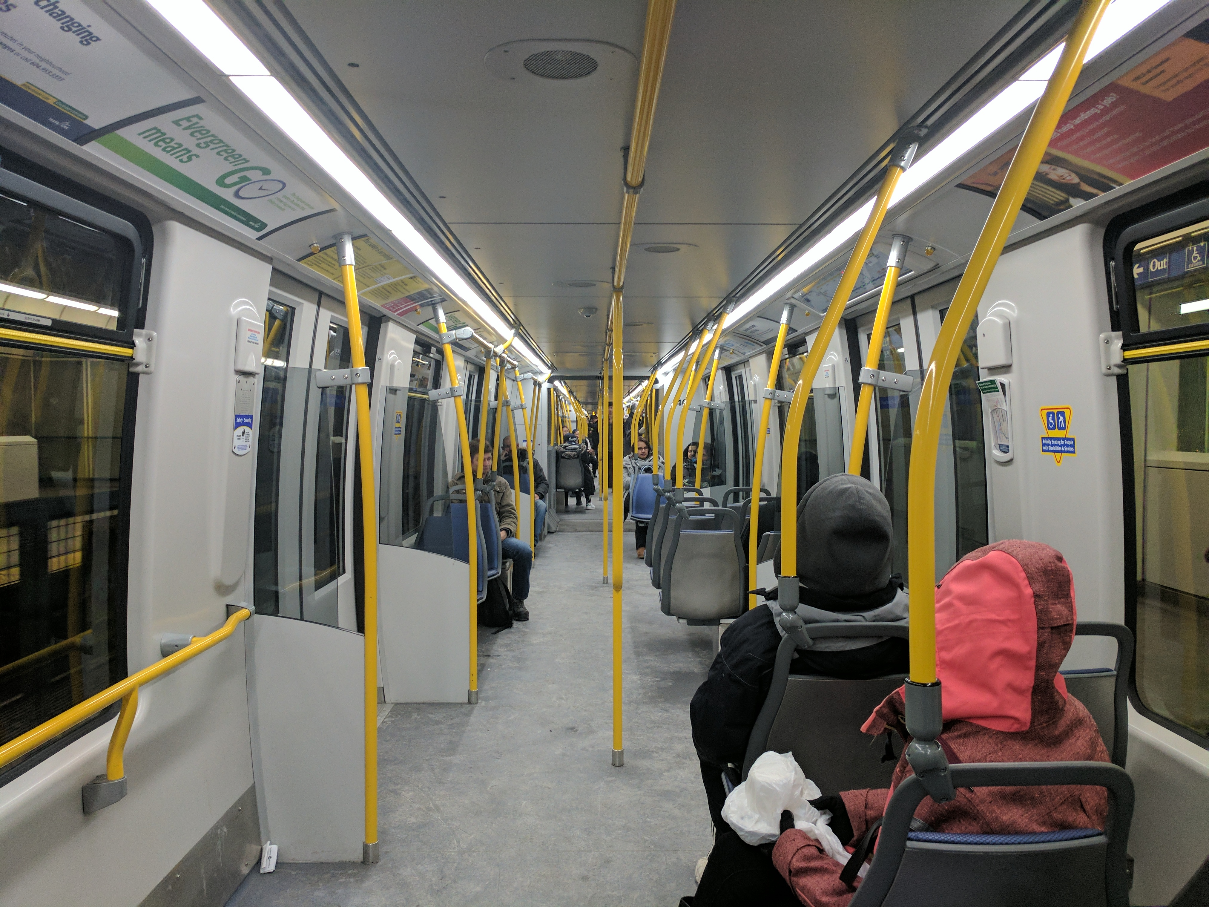 Skytrain Mk3 interior, look toward center. Notice the walkways, including gangways are made slightly wider over Mk2 Gen 2